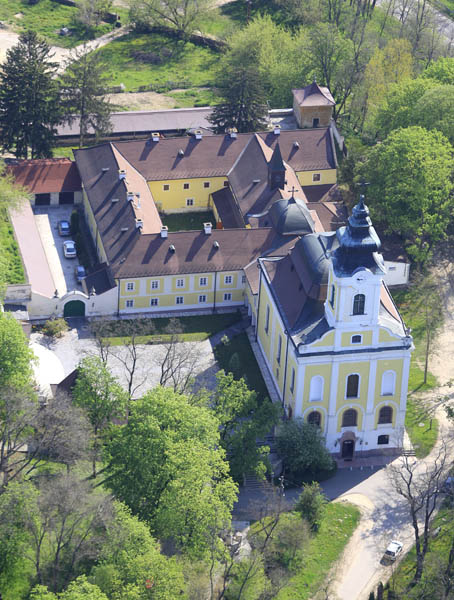 Máriabesnyő, Hungary, aerial photography